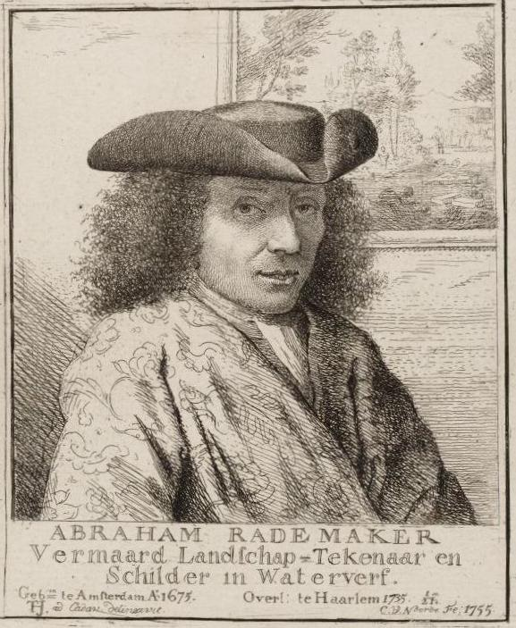 Postumous portrait of the painter and printmaker Abraham Rademaker "Respected landscape draughtsman and painter in watercolors"